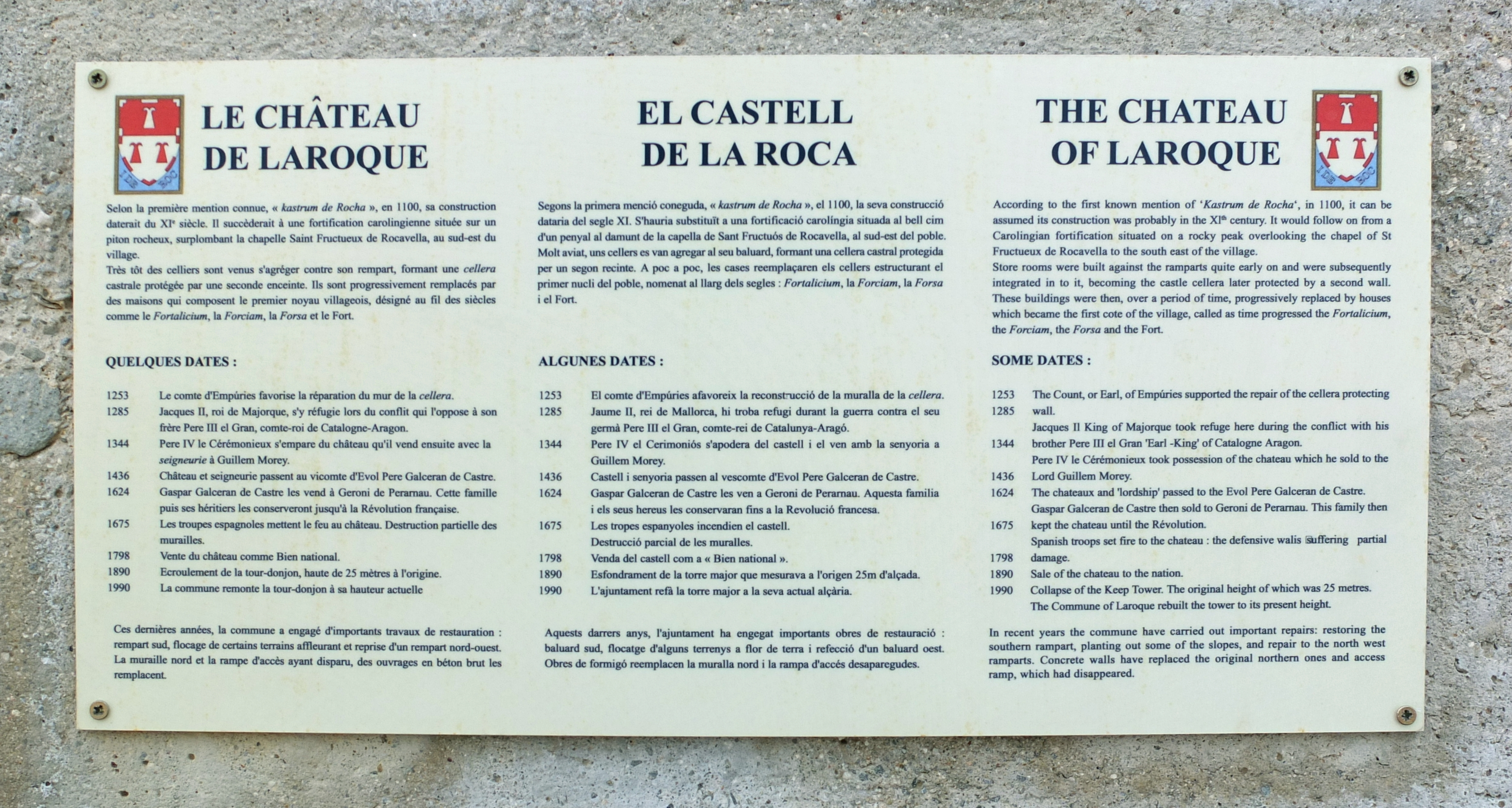 Info plate at Laroque Castle.